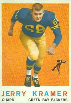 National Football League player Jerry Kramer displayed on a Topps football trading card with the Green Bay Packers in 1959.